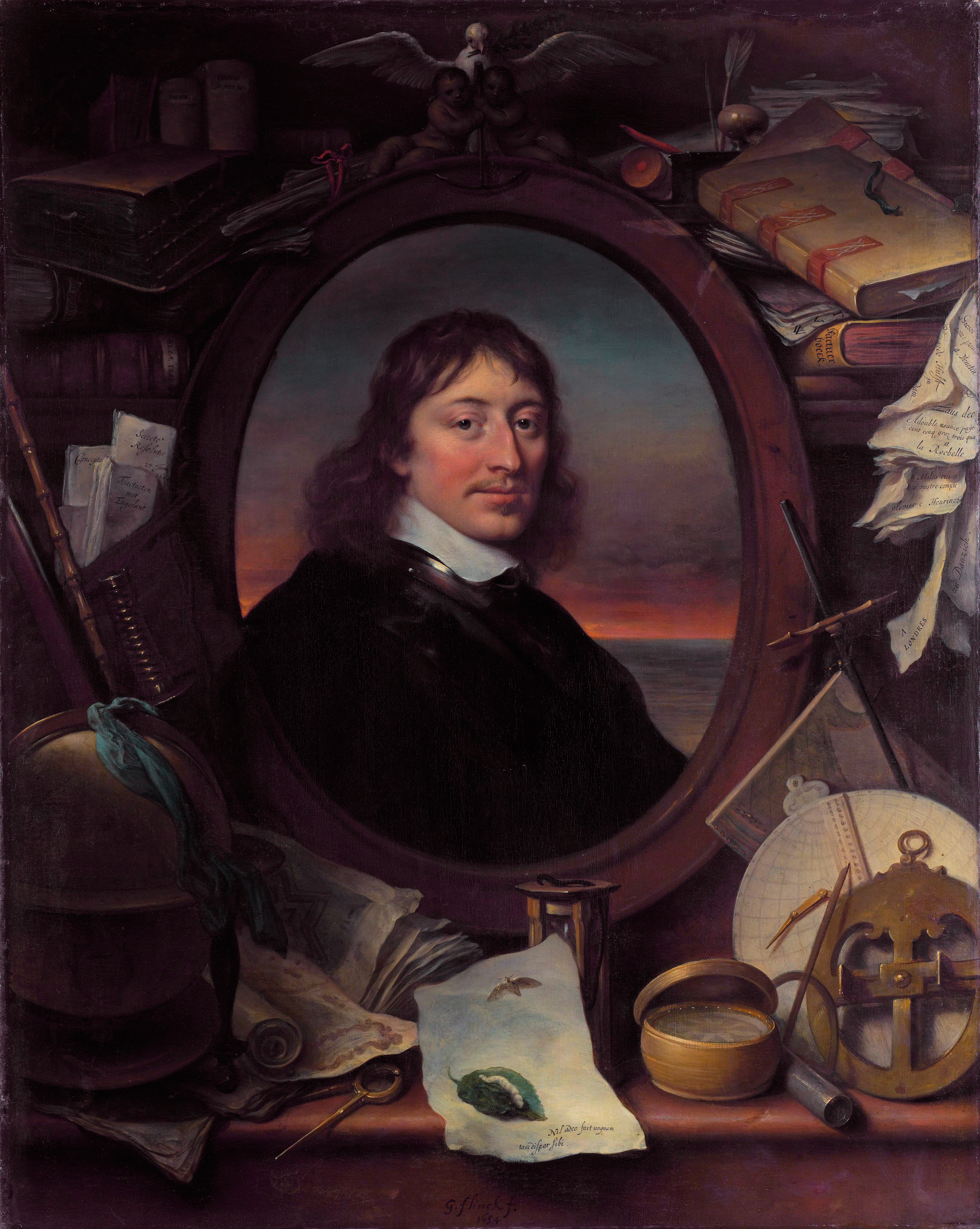 Gerard Pietersz Hulft (1621-56), First Councilor and Director-General of the Dutch East India Company oil on canvas 130 x 103 cm signed b.c.: G.Flinck f. 1654 inscribed b.c.: Nil adeo fuit unquam / tam dispar sibi